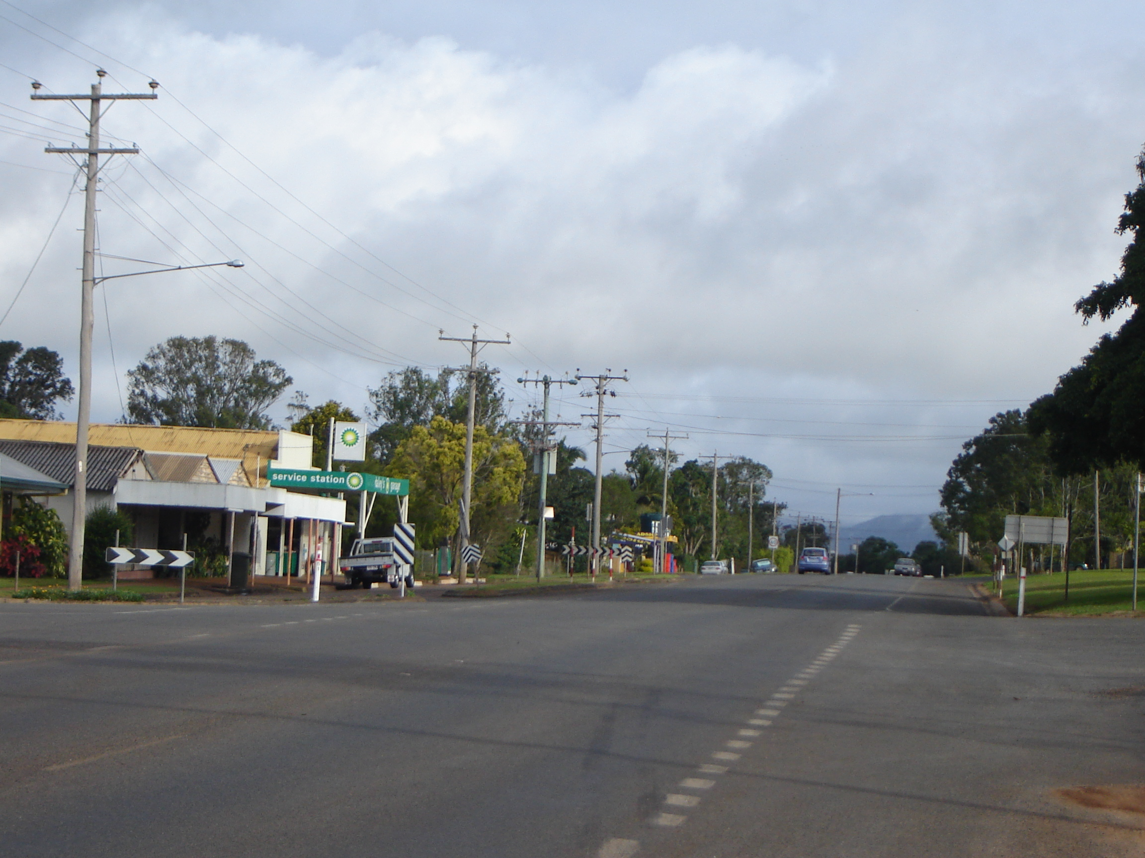 Tolga's main street. Photo taken by Frances76.